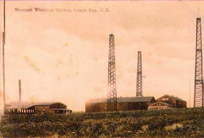 Historical Photo of Marconi Wireless Site and Towers in Glace Bay, Nova Scotia Canada.